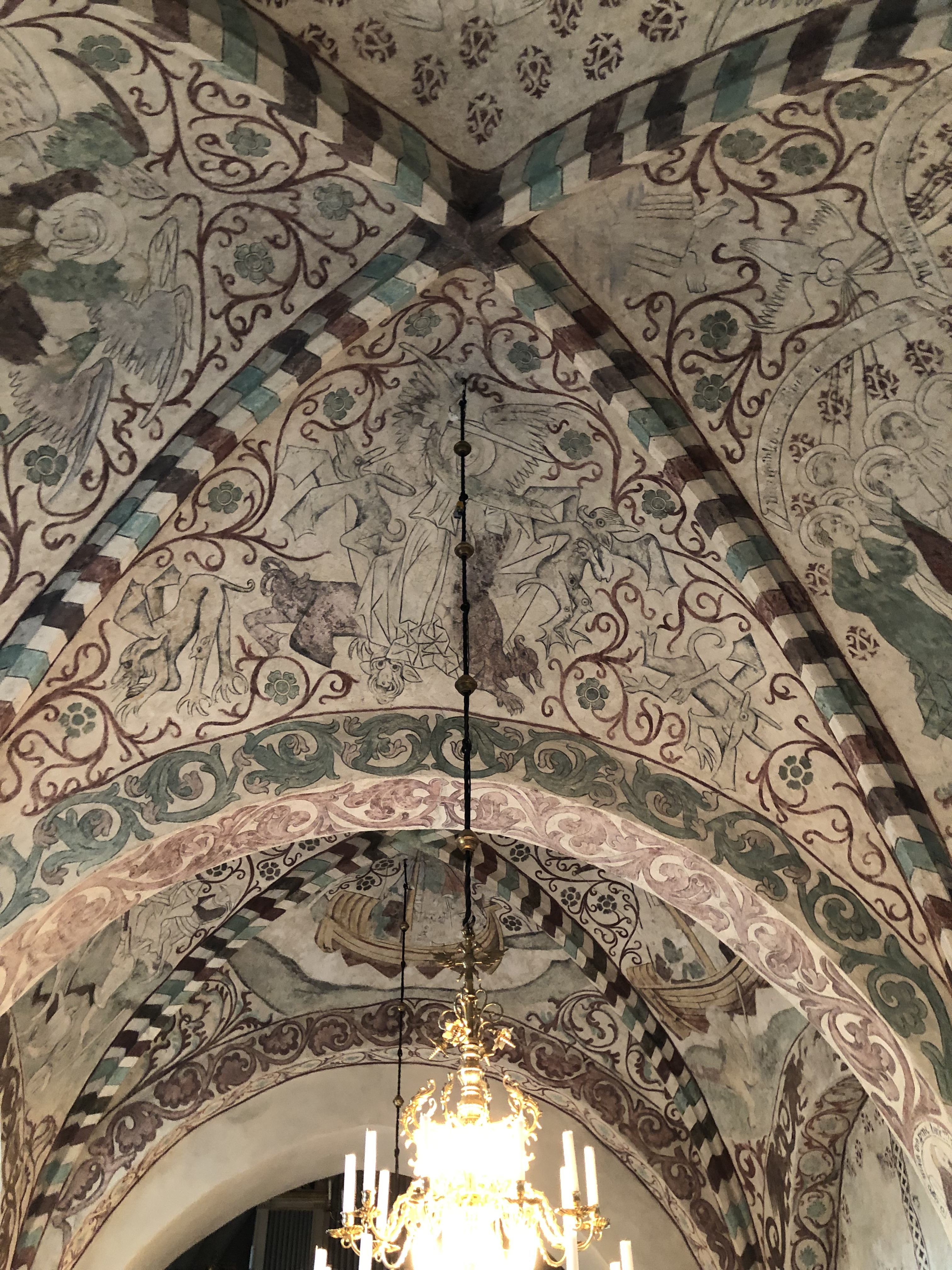 Ceiling paintings in Lids church by Albertus Pictor, 2019